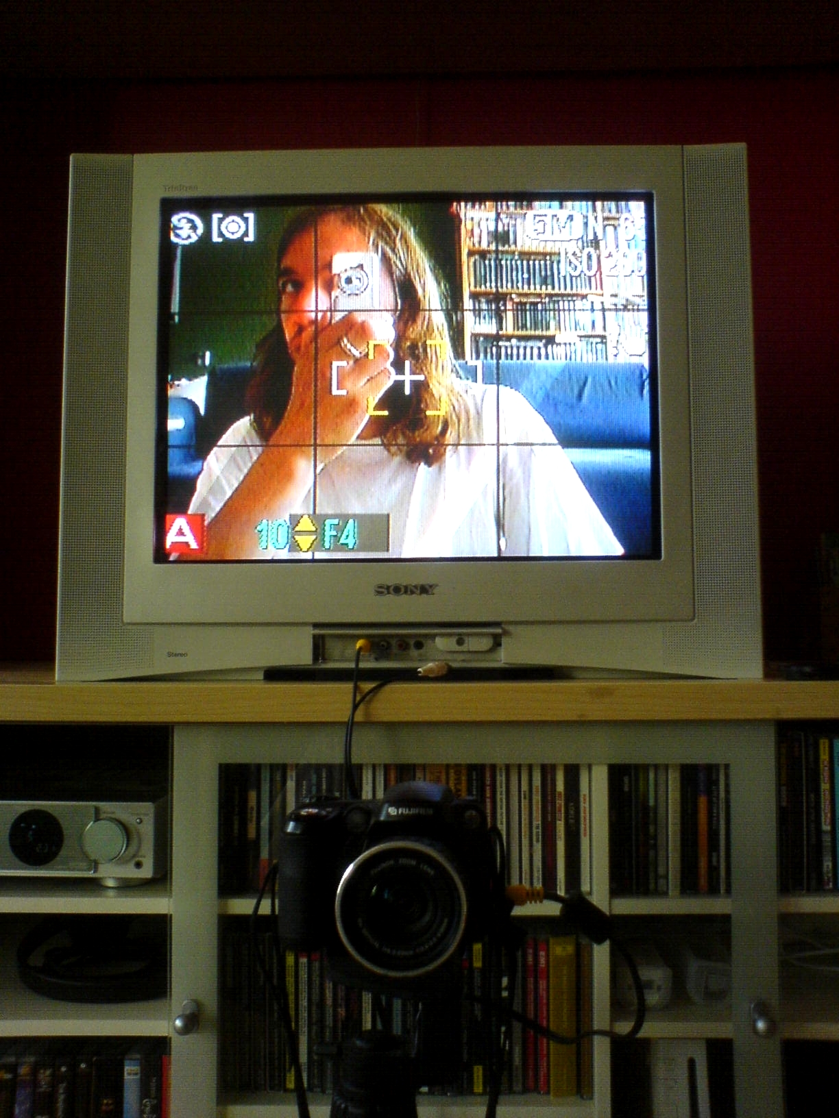 Sometimes its good to see what your doing when shooitng selfportrets. I like to plug my camera into my television and use the screen as a viewfinder. To quote Godzilla: size matters.